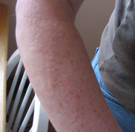 A human arm, four hours after IPL treatment. The raised bumps and red colouration around each hair follicle are typical of this treatment. This normally subsides after three or four days.